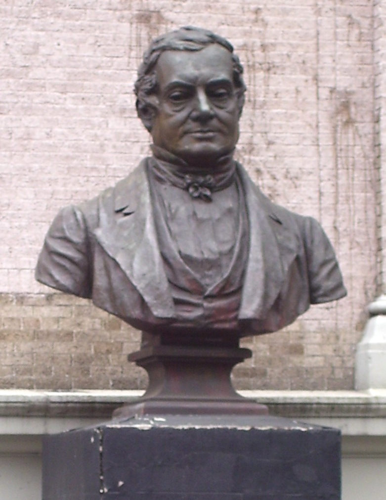 Bust of Washington Irving (1885) by Friedrich Beer outside Washington Irving High School, on Irving Place, in Manhattan, New York City.